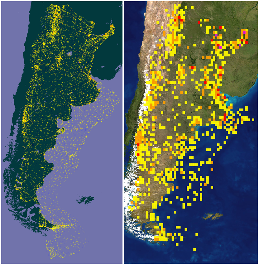 GBIF (left) and BOLD (right) occurrences maps, detail. Argentina. september 2016.